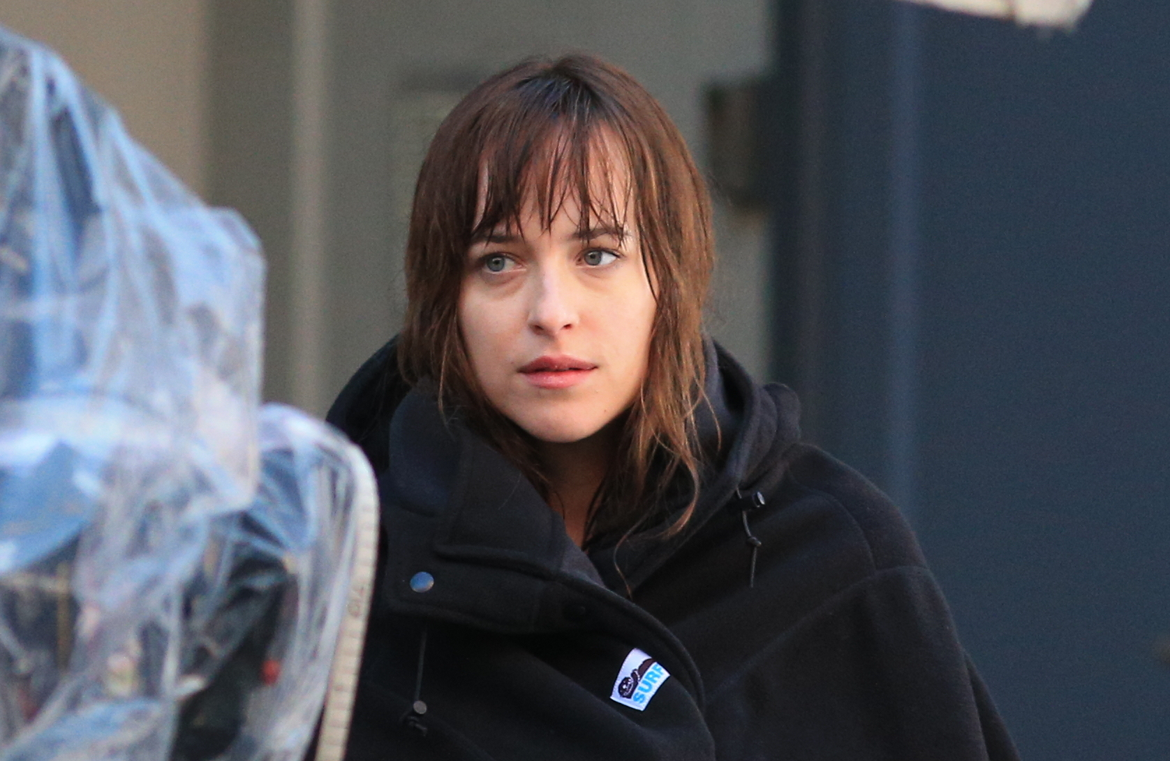 Dakota Johnson on the sets of Fifty Shades of Grey in Vancouver, British Columbia, January 2014